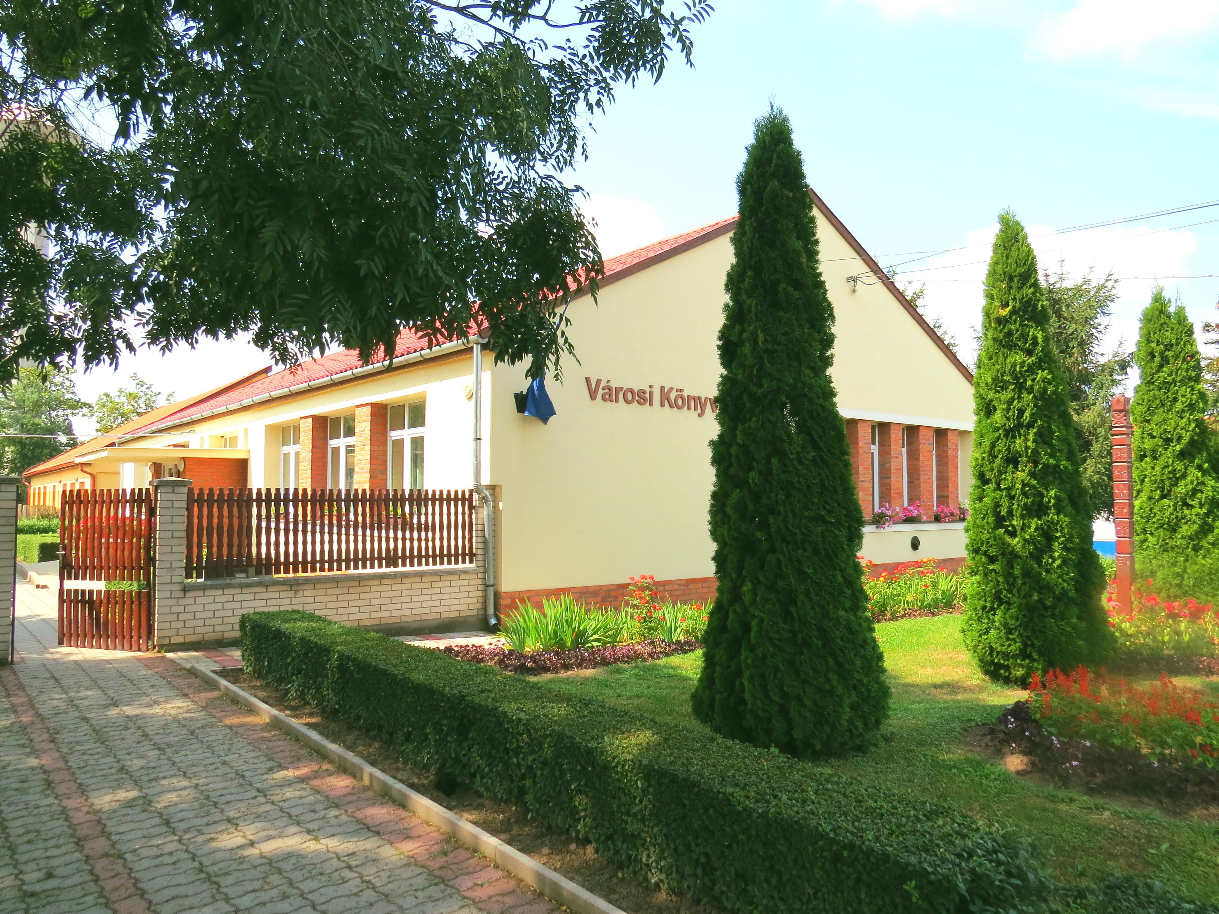 Public Library Cigánd, Hungary